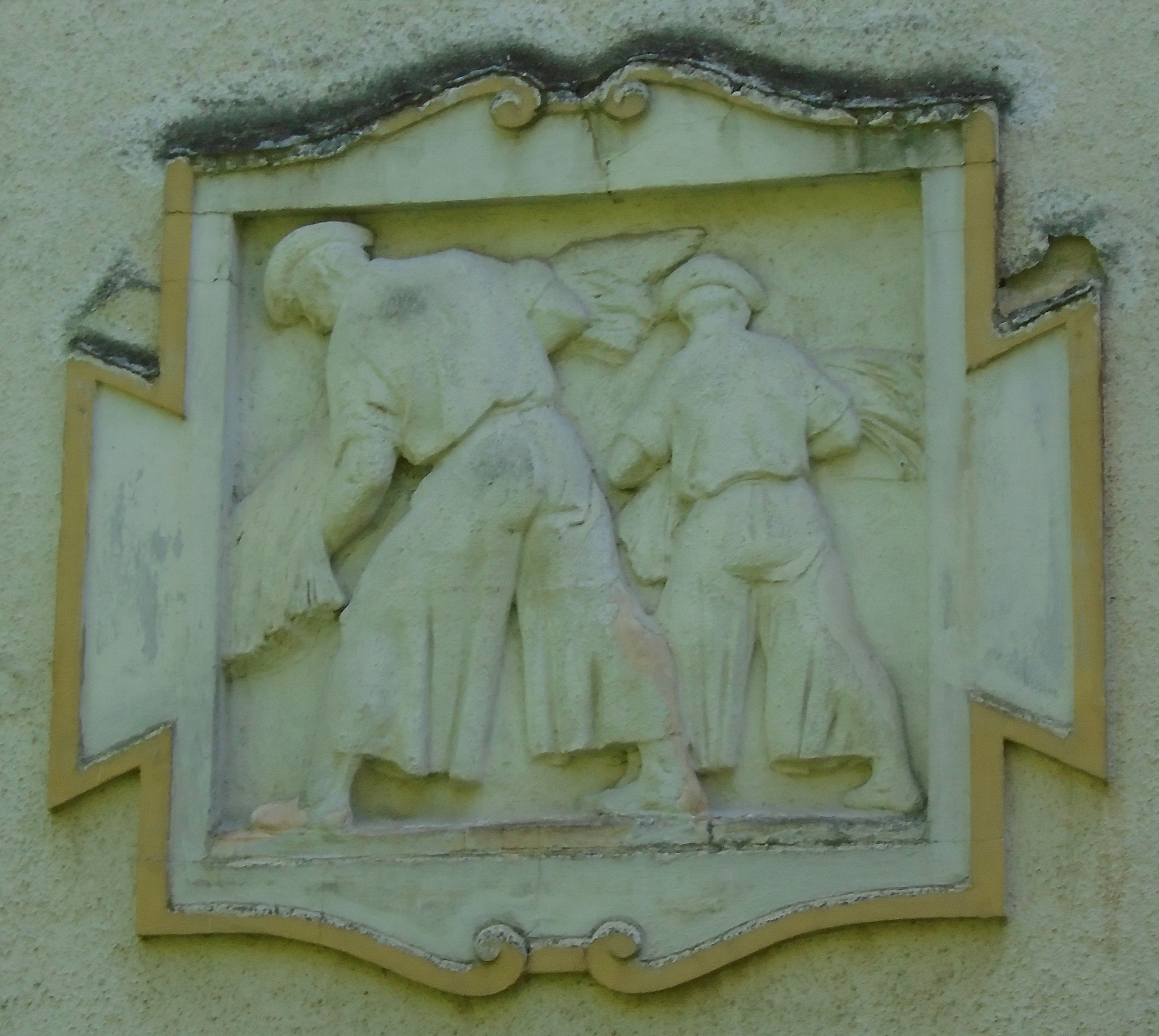 Relief in Gödöllő (Egyetem Square No 3).